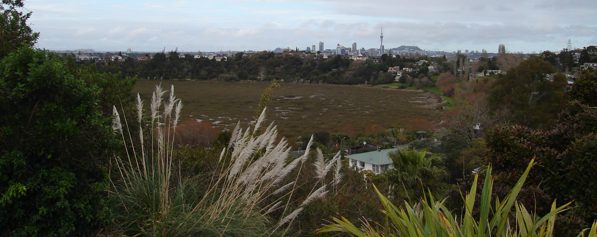 Tuff Crater, Northcote, Auckland, with Mt Eden and the Auckland CBD in the background